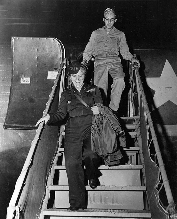 WAC Director arrives at Haneda: Col. Mary A. Hallaren, Director of the Women's Army Corps, followed by a crew member, leaves an Air Transport Command Plane at Haneda Air Base, Tokyo, Japan, on 24 September 1947.